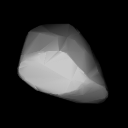 3D convex shape model of 1533 Saimaa, computed using light curve inversion techniques. J. Hanuš, J. Ďurech, M. Brož, B. D. Warner (June 2011). "A study of asteroid pole-latitude distribution based on an extended set of shape models derived by the lightcurve inversion method". Astronomy and Astrophysics 530: A134. ISSN 0004-6361. arXiv